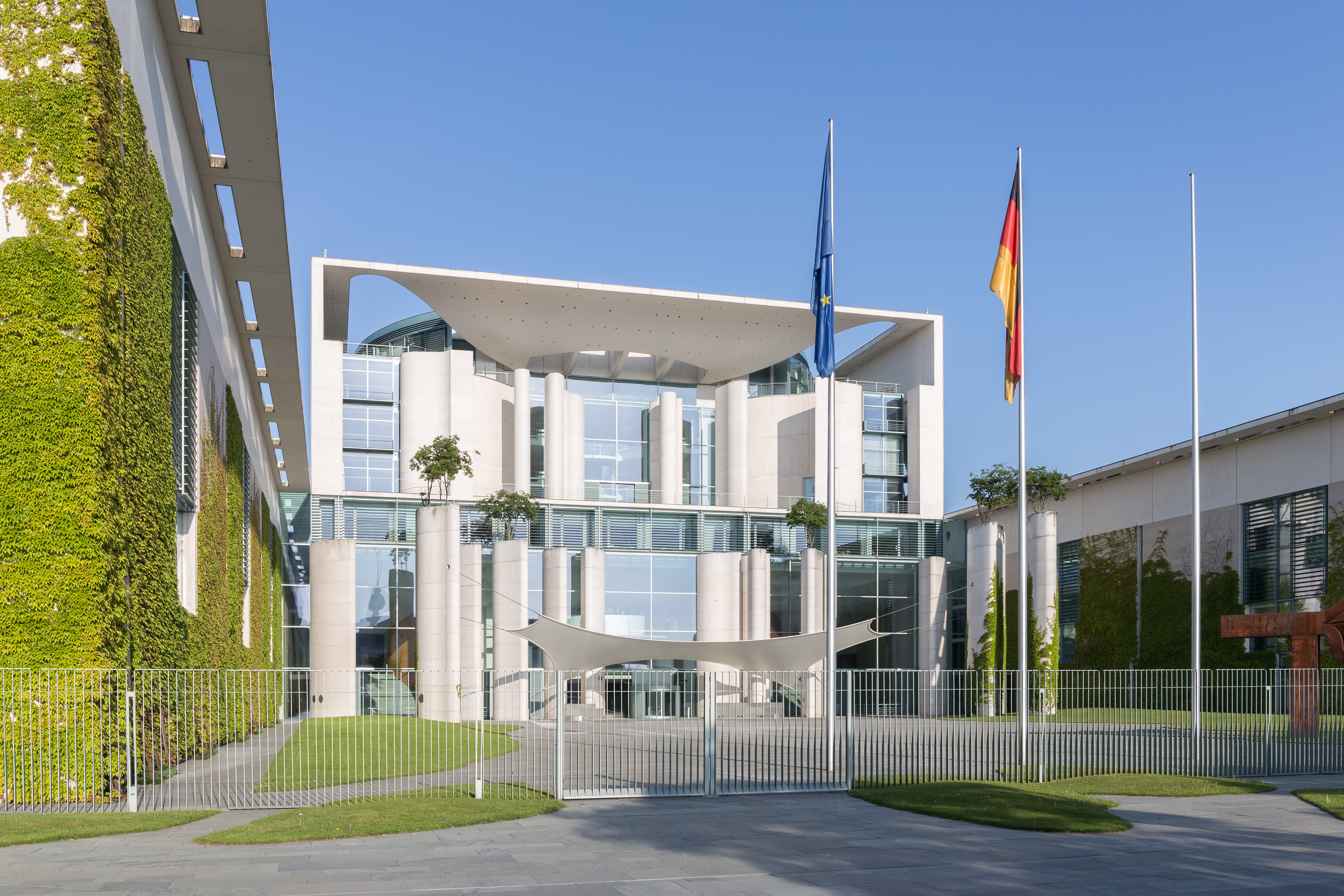 The Federal Chancellery in Berlin. It was planned by the architects Axel Schultes and Charlotte Frank and built in the years 1997-2001.